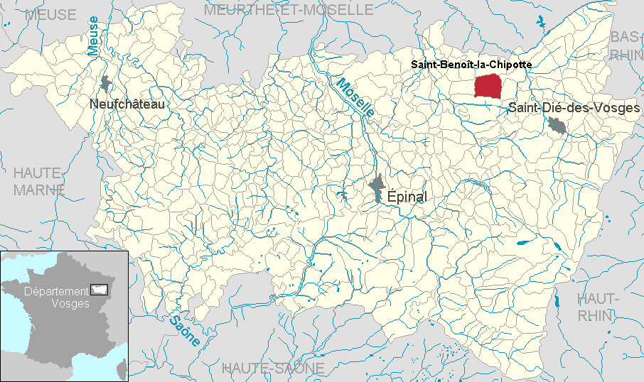 Saint-Benoît-la-Chipotte in the department of Vosges, Lorraine, France